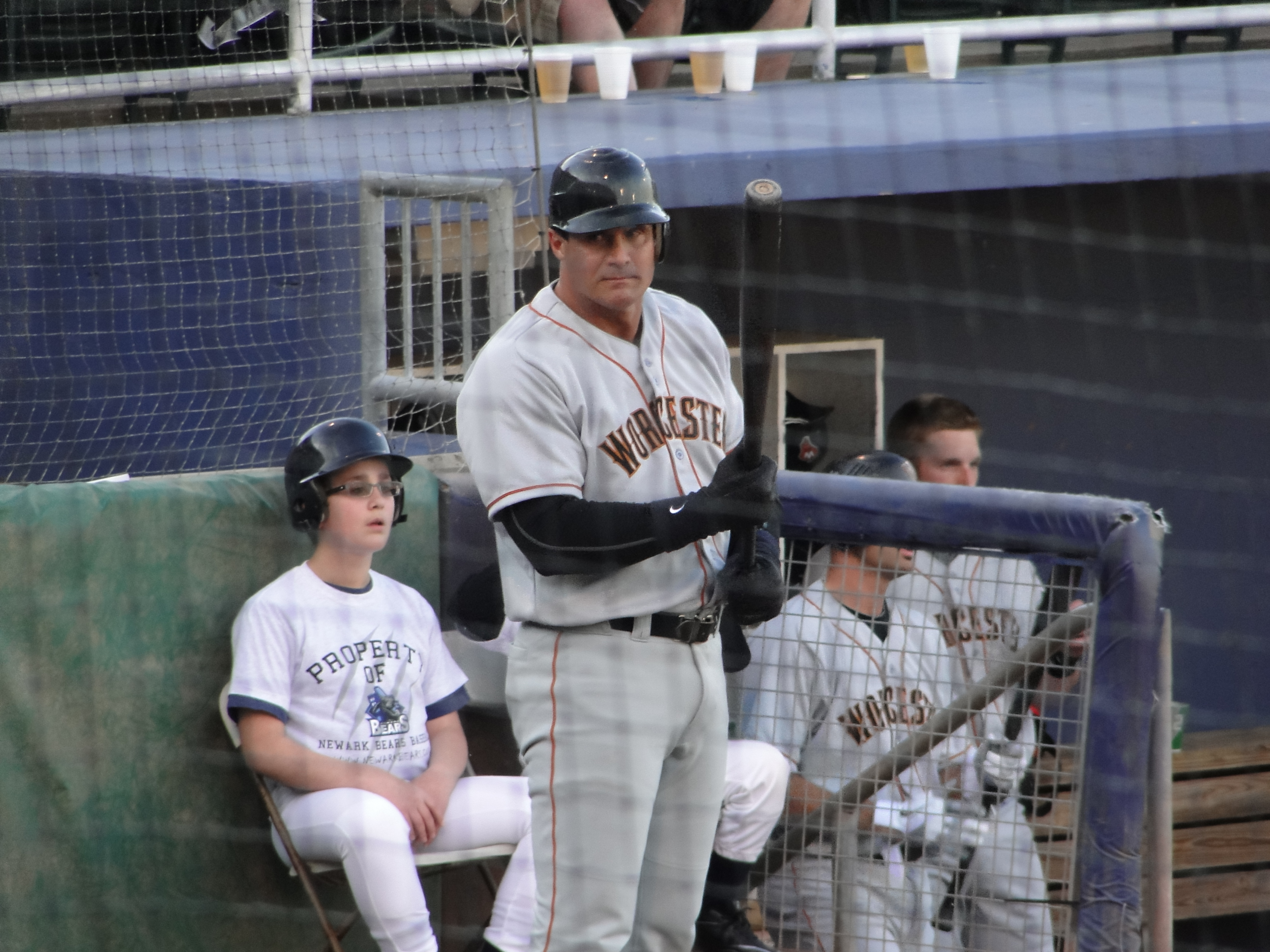 Jose Canseco with the Worcester Tornadoes.